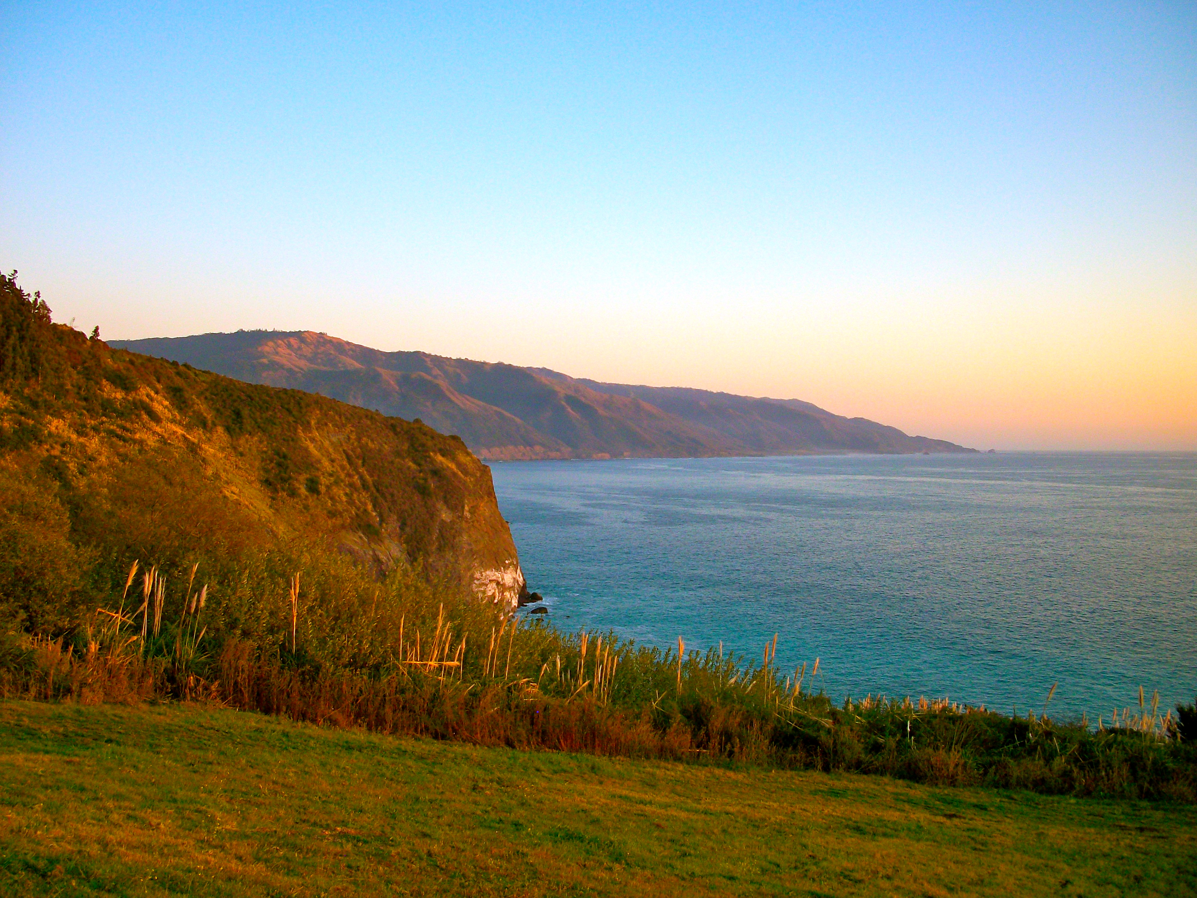 Looking south from Lucia - 3 December, 2011